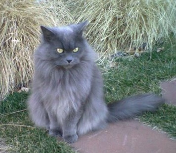 Grey female domestic longhaired cat, "Scooter", Lincoln, NE